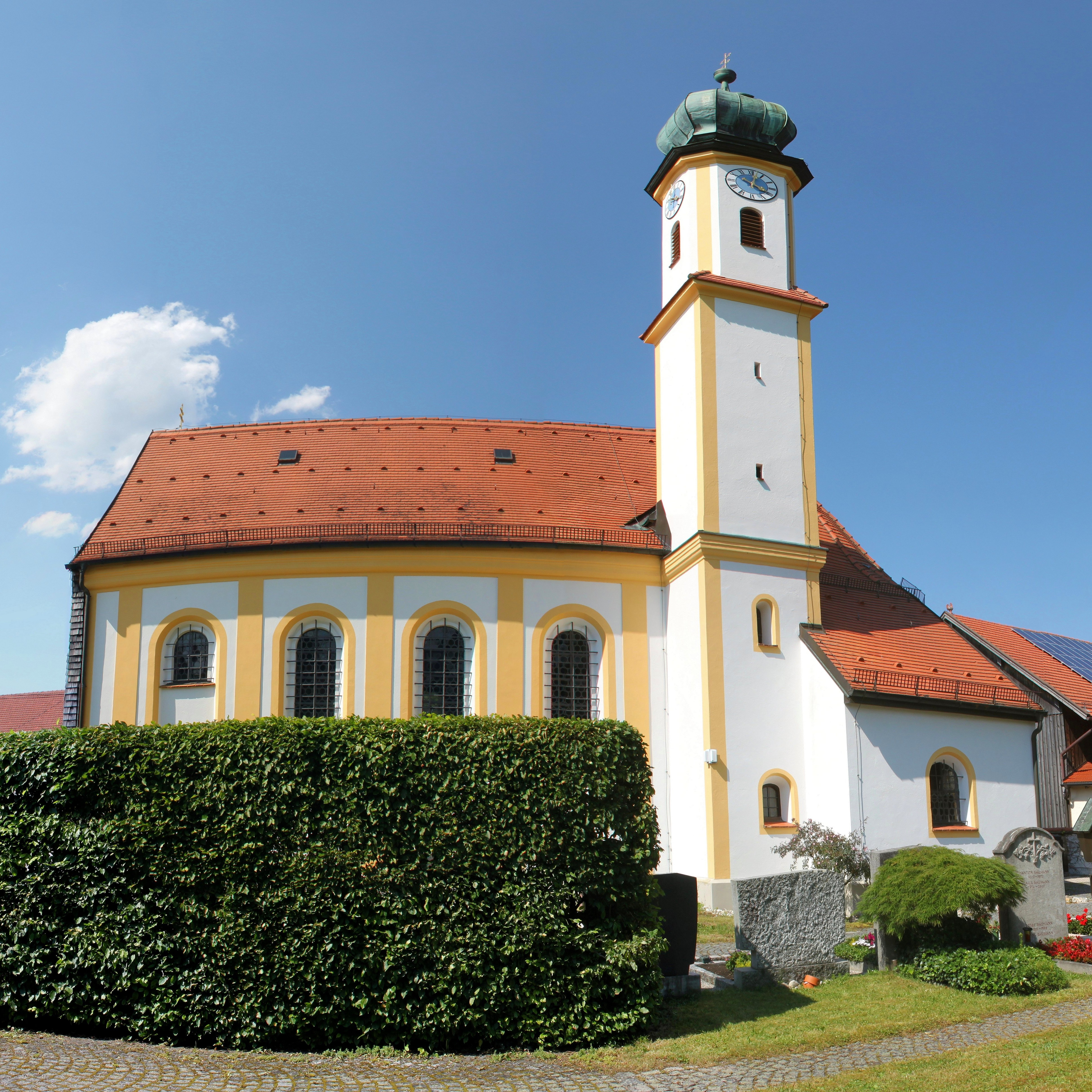 Unterbiberg: St. Georg (Saint George) church, as seen from the south side of the churchyard.